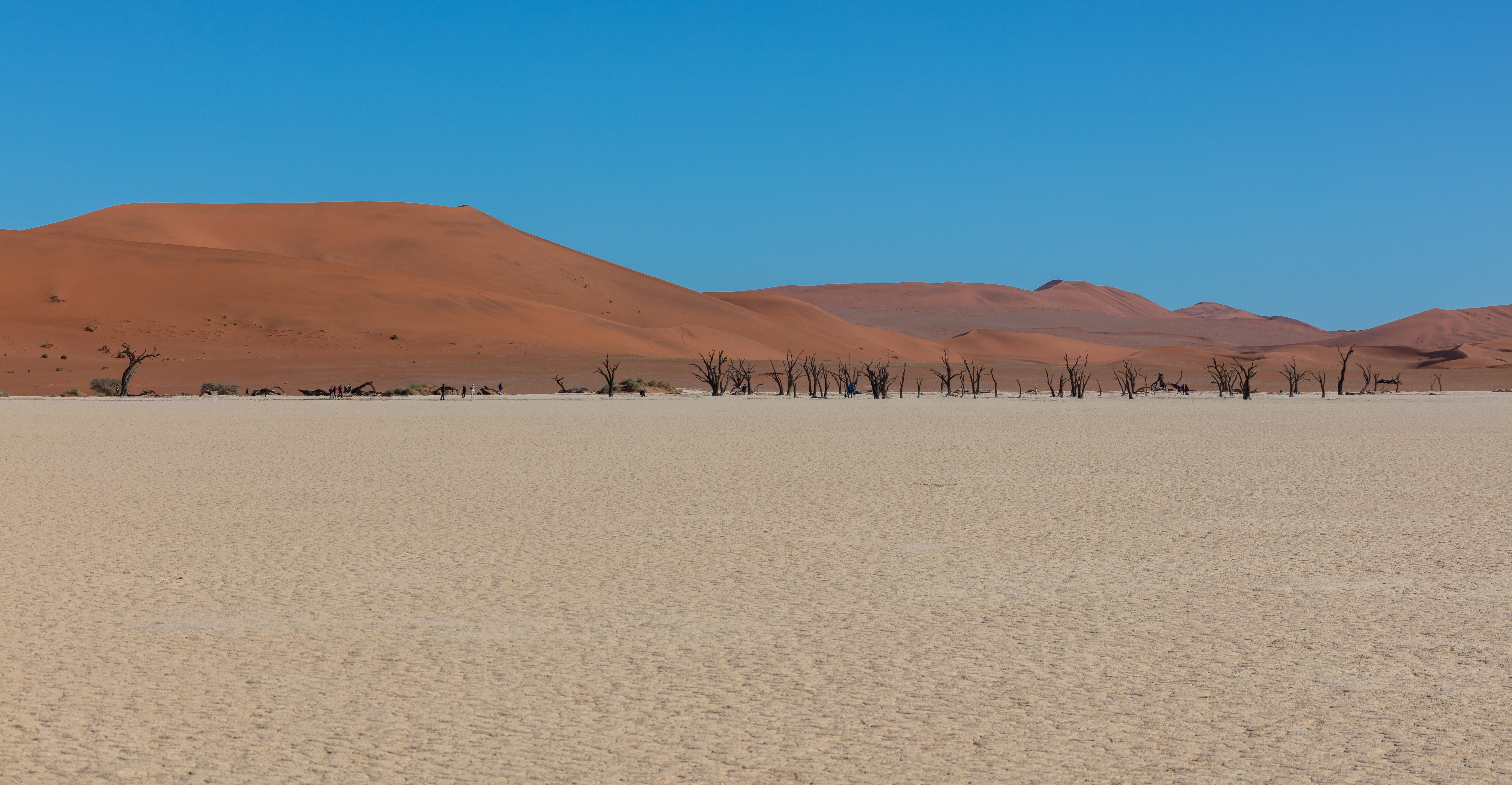 Dead Vlei, Sossusvlei, Namibia